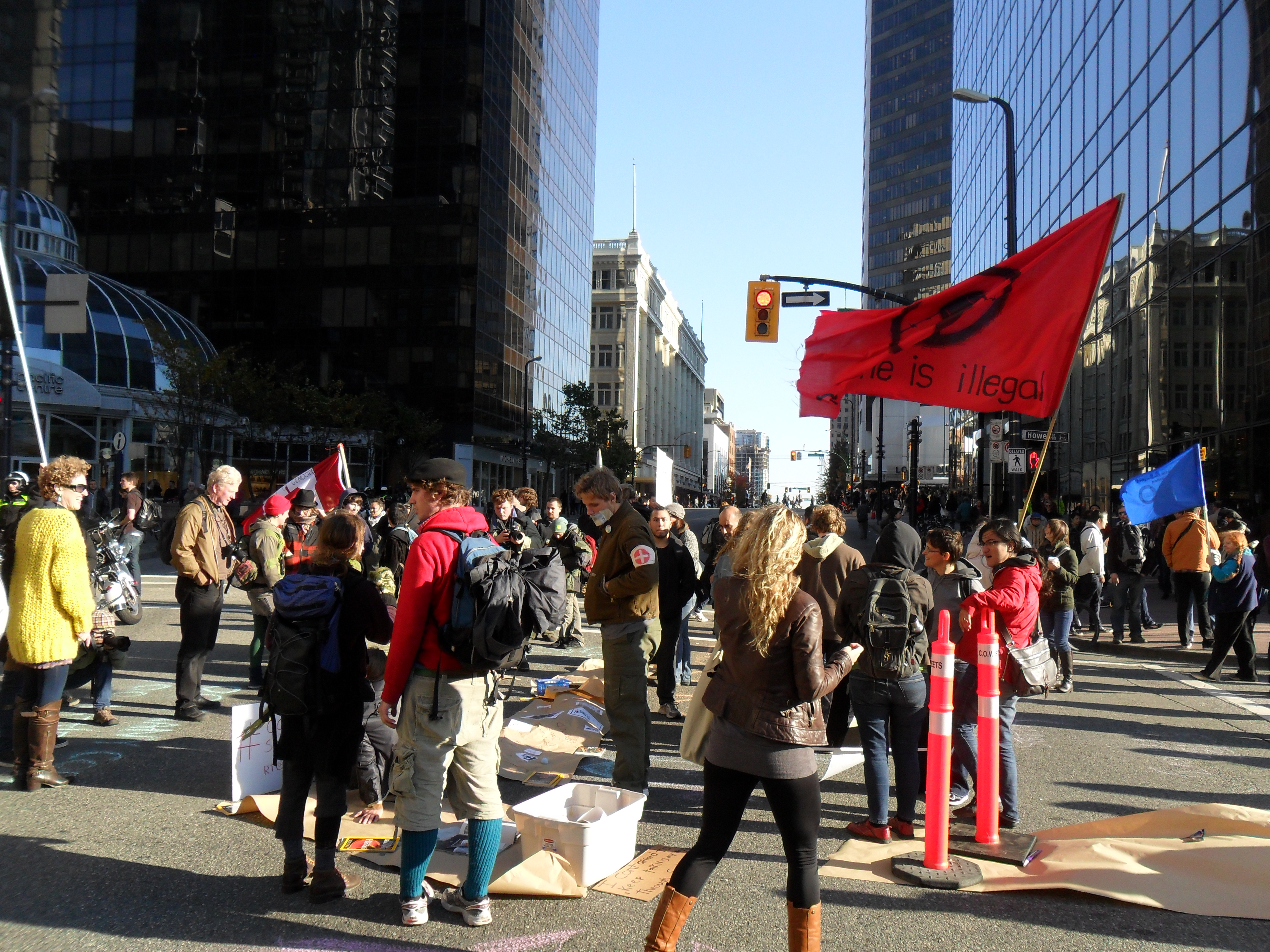 Occupy Vancouver protest in front of the Art Gallery. A protester is holding a "no one is illegal" flag.